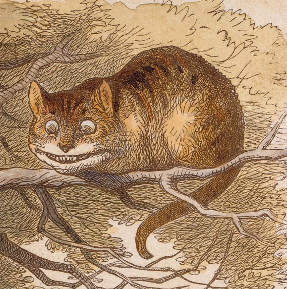 Sir John Tenniel's hand-colored proof of Cheshire Cat in the Tree Above Alice for The Nursery "Alice"